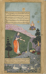 (Patron) Abd al-Rahim; (Artist) Syama Sundara; (Artist) Ghulam 'Ali; (Artist) Syama Sundara; (Artist) Kala Pahara; (Artist) Kamal; (Artist) Mohan; (Artist) Mushfiq; (Artist) Nadim; (Artist) Nadir (Bihhud); (Artist) Qasim; (Artist) Sadi; (Artist) Shyam Sundar; (Artist) Yusuf 'Ali; (Artist) Zayn al'-'Abidin; India; 1597-1605; Ink, opaque watercolor, and gold on paper, in modern bindings; H x W: 27.5 x 15.2 cm (10 13/16 x 6 in); Gift of Charles Lang Freer